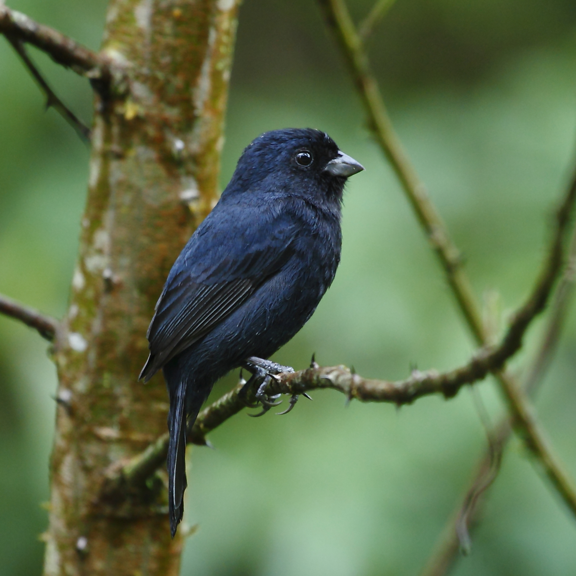 Blackish-blue seedeater (male) at São Luiz do Paraitinga - SP - Brazil